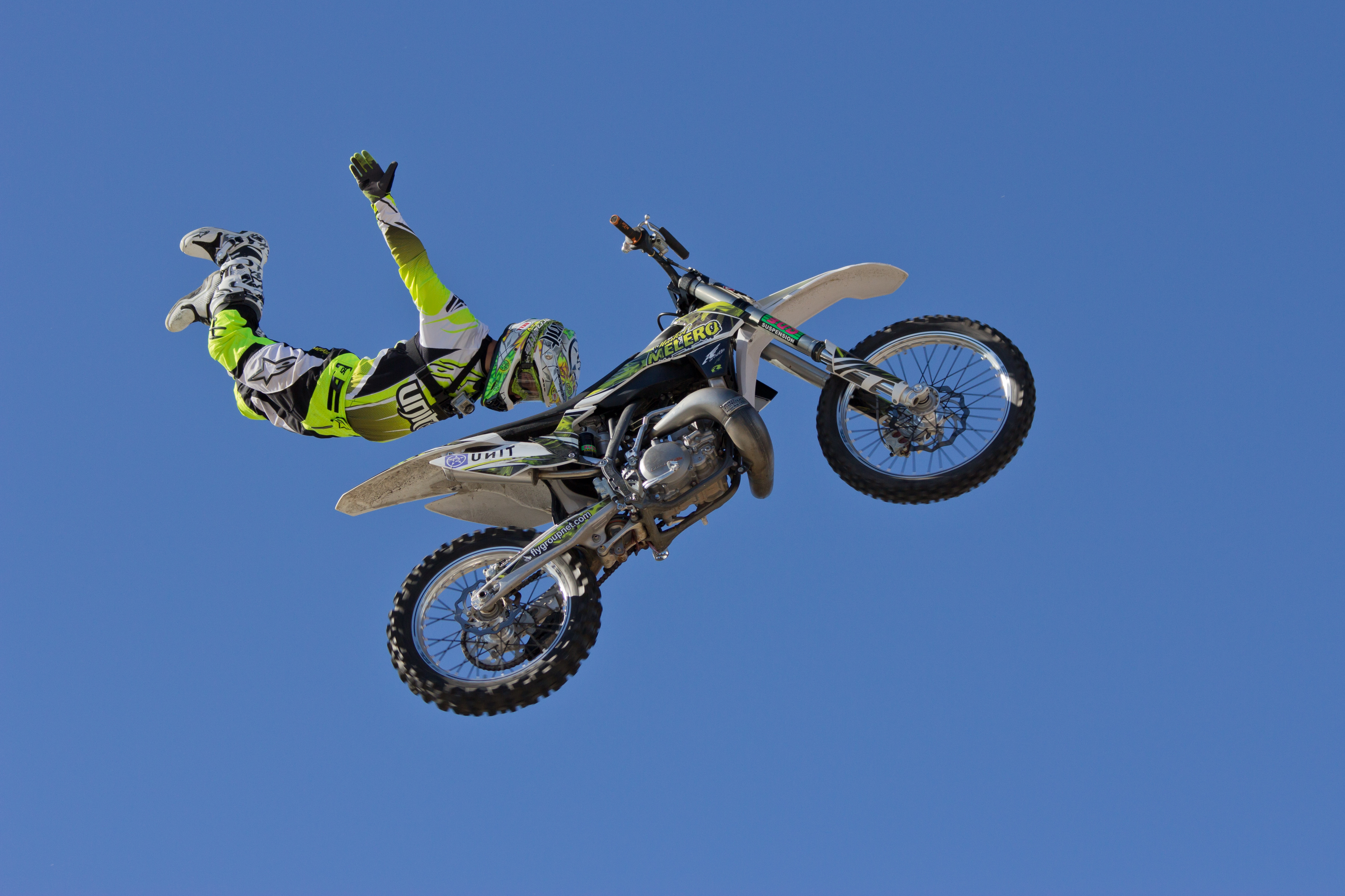 Freestyle rider Maikel Melero at an exhibition during the Spain Truck GP 2013 ("Rock Solid" trick).